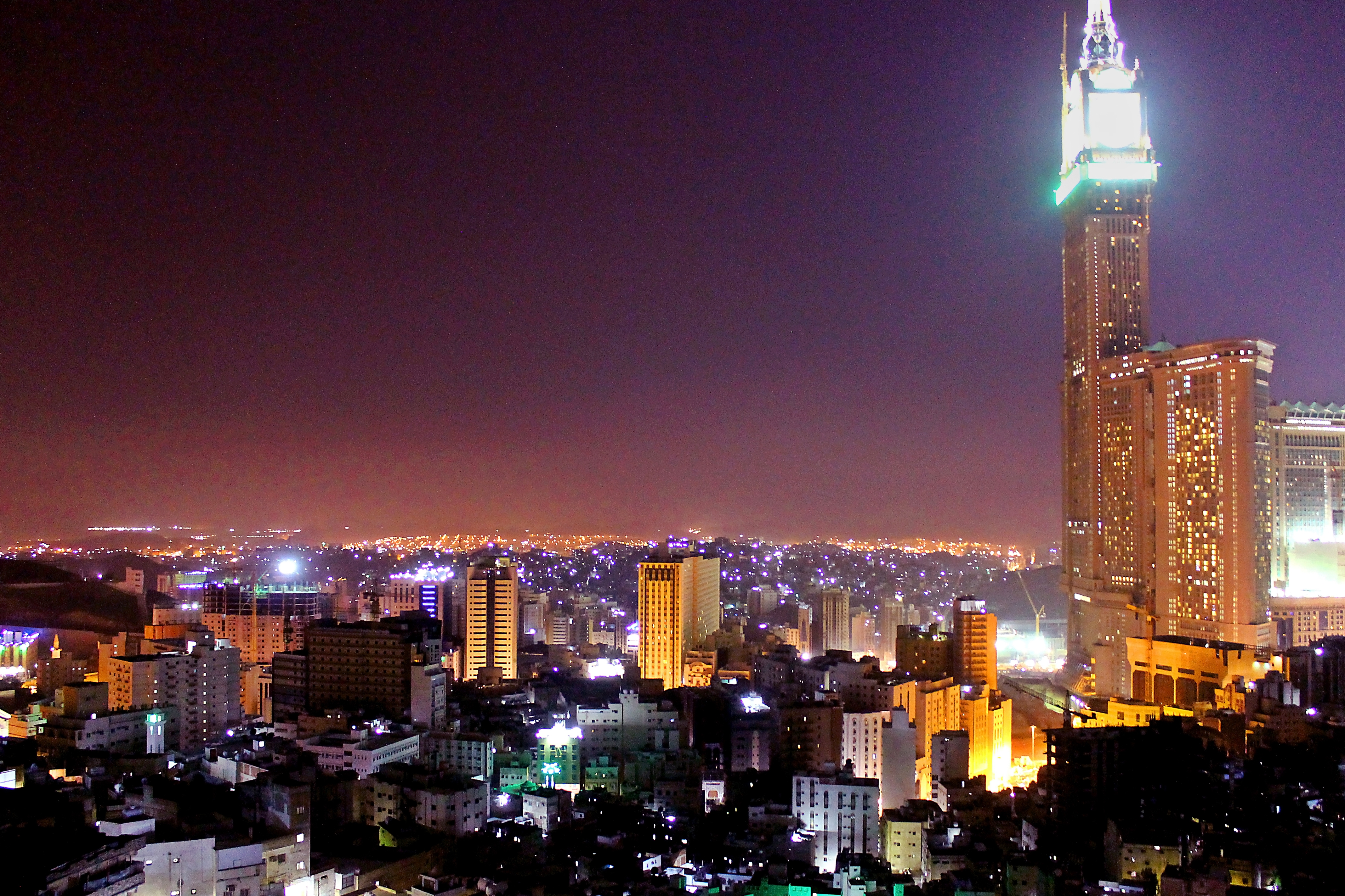 View of Mecca city at night from a high mountain, at the right is Mecca clock tower.